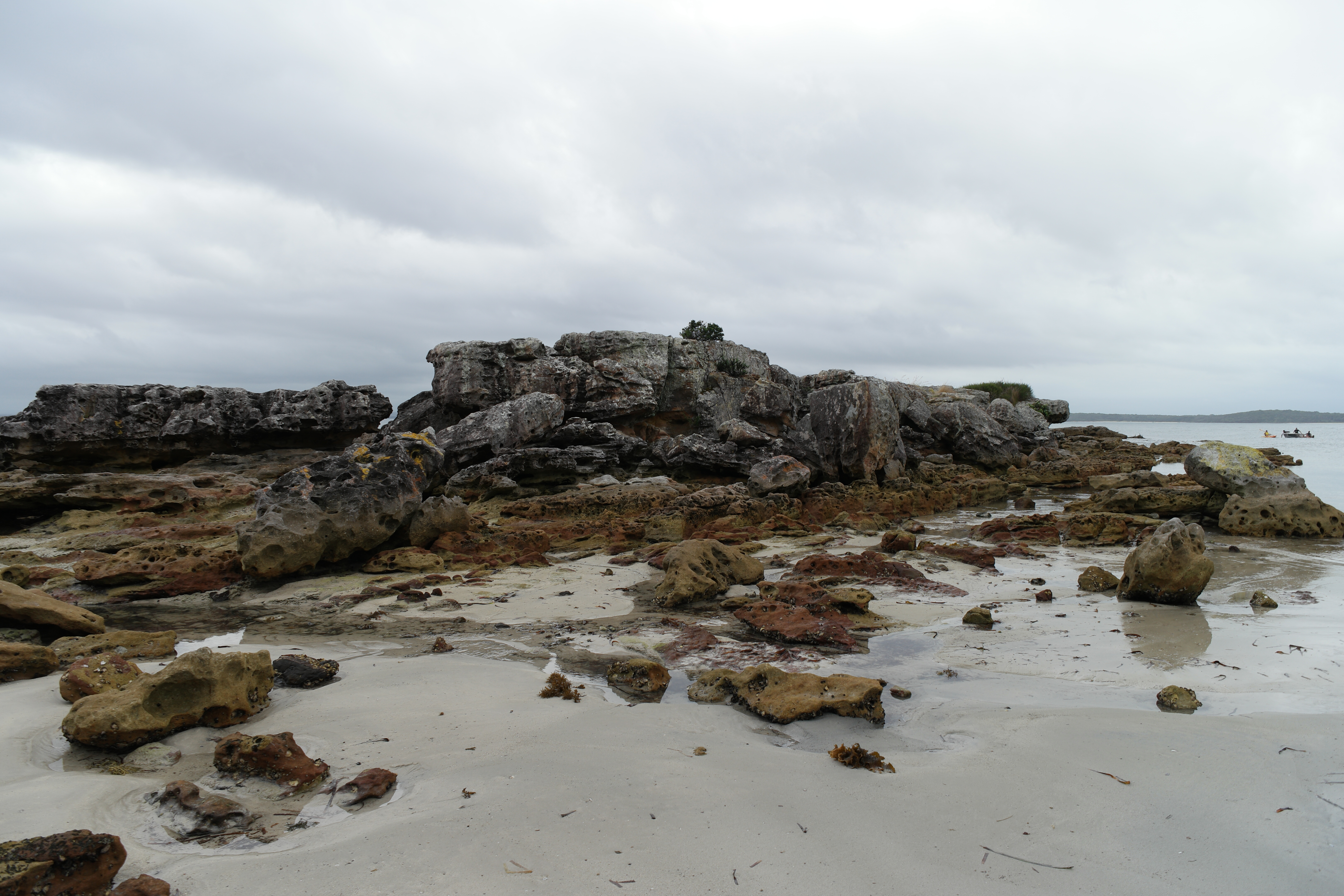 Beecroft Peninsula, Jervis Bay Territory, Australia.